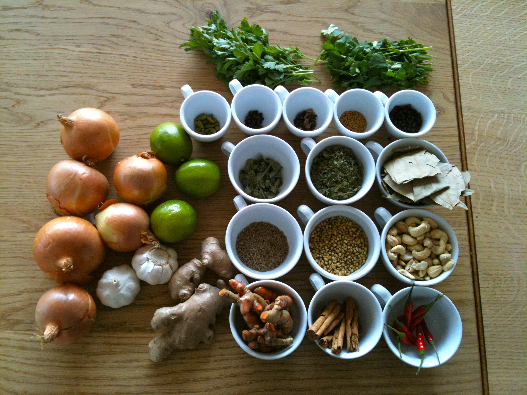 Here are most of the spices, seasonings, herbs and vegetables that I'll be using in the dish. Show in the picture are yellow onions, garlic bulbs, limes, fresh ginger, fresh tumeric, parseley, fresh coriander leaves, green cardamom pods, black cardomom seeds, whole cloves, fenugreek seeds, black pepper, dried curry leaves, dried fenugreek leaves, dried bay leaves, whole cumin seeds, whole coriander seeds, raw cashew nuts, cinammon and bird's-eye chili peppers. Most of the dry spices will be roasted together and then ground.